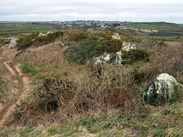 Clegyr Boia, view east The eastern end of the hillfort/rock mound looking over to the city of St David's clustered around the cathedral at its core, the lowest point. The legend is that Boia, the local chieftain in St David's time, using this outcrop as his vantage point "with invidious malignity overlooked the anchorite's calm retirement" (Richard Fenton, 1811)until he was himself slain by a rival. The word Clegyr means cairn or stony place.